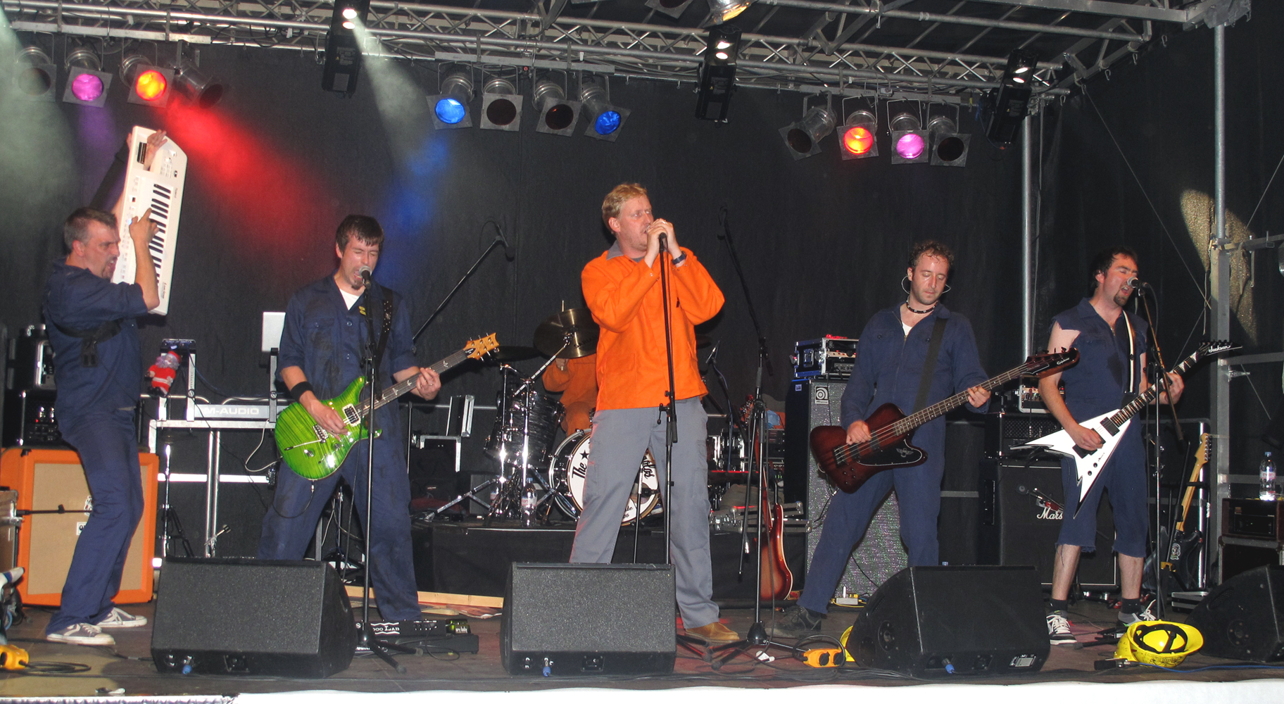 Rock group Tëschegas at the Fête de la Musique in Niederanven, Luxembourg